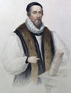 Portrait of John Hooper; hand-coloured stipple engraving; held at the National Portrait Gallery